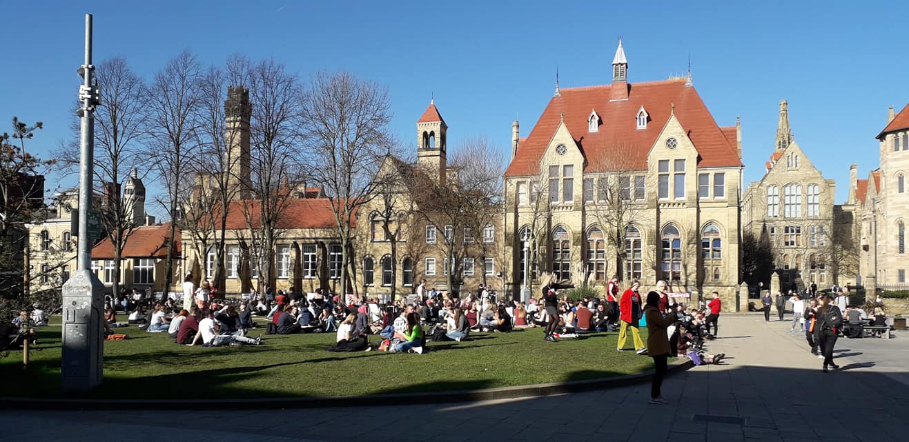 Manchester University (UoM) City Campus, Feb 26, 2019.